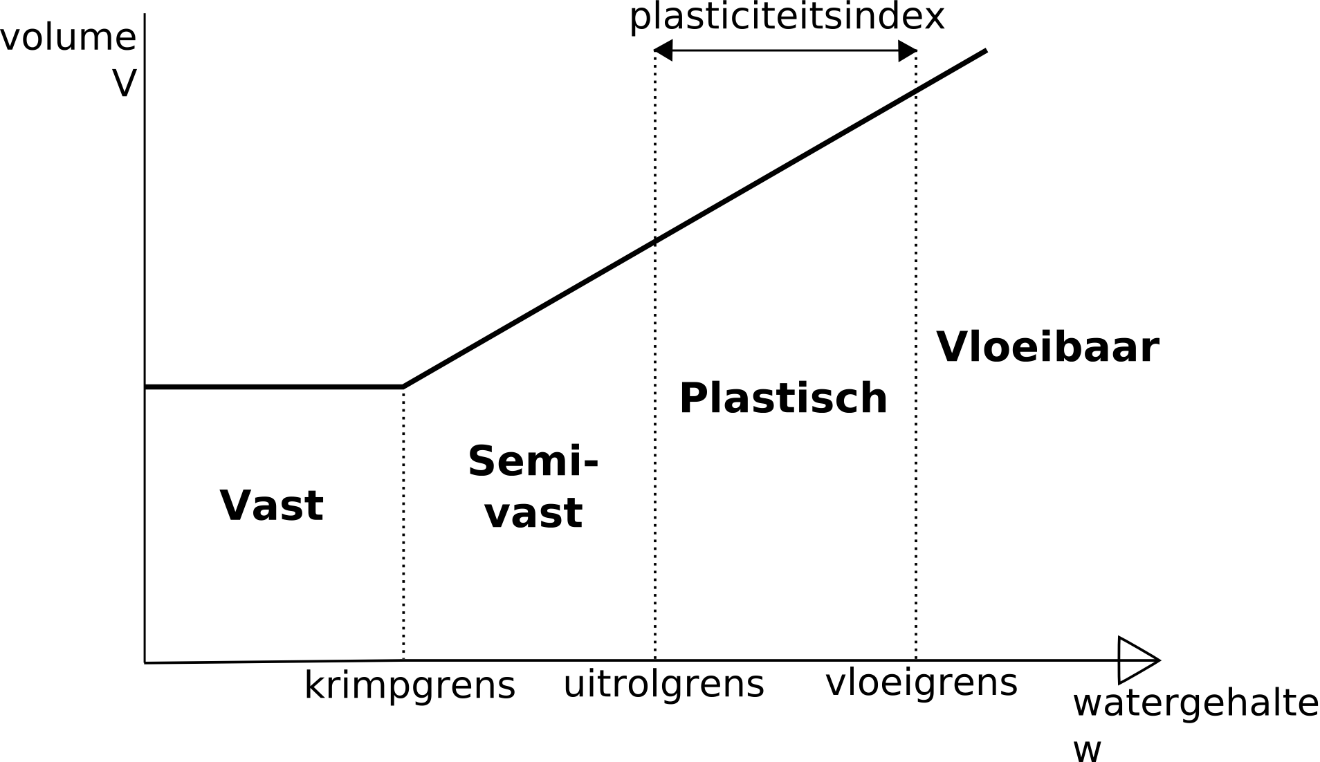 Chart of Atterberg limits for soil.